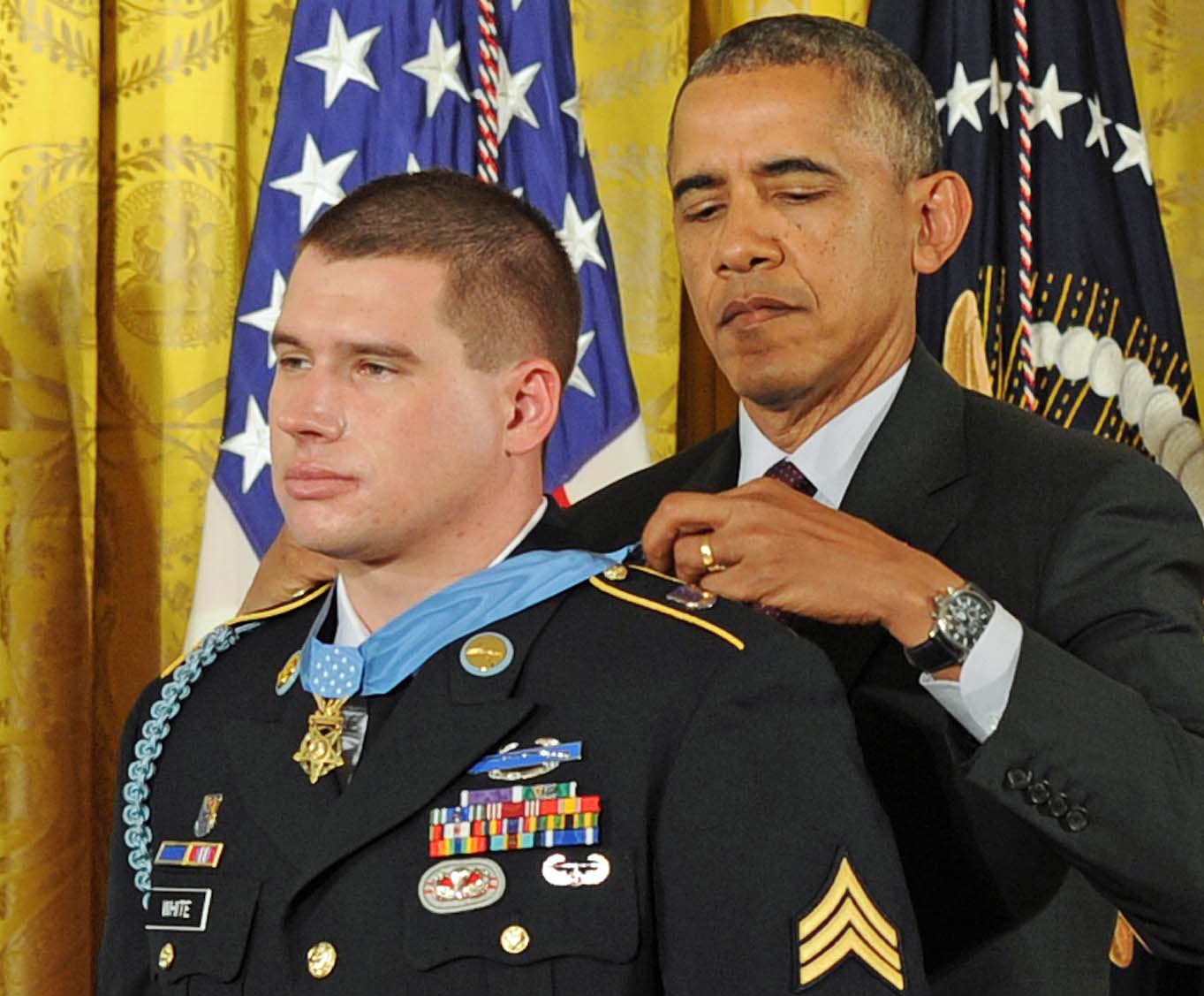 Former Army Sgt. Kyle Jerome White receiving Medal of Honor from U.S. President Barack Obama on May 13, 2014.